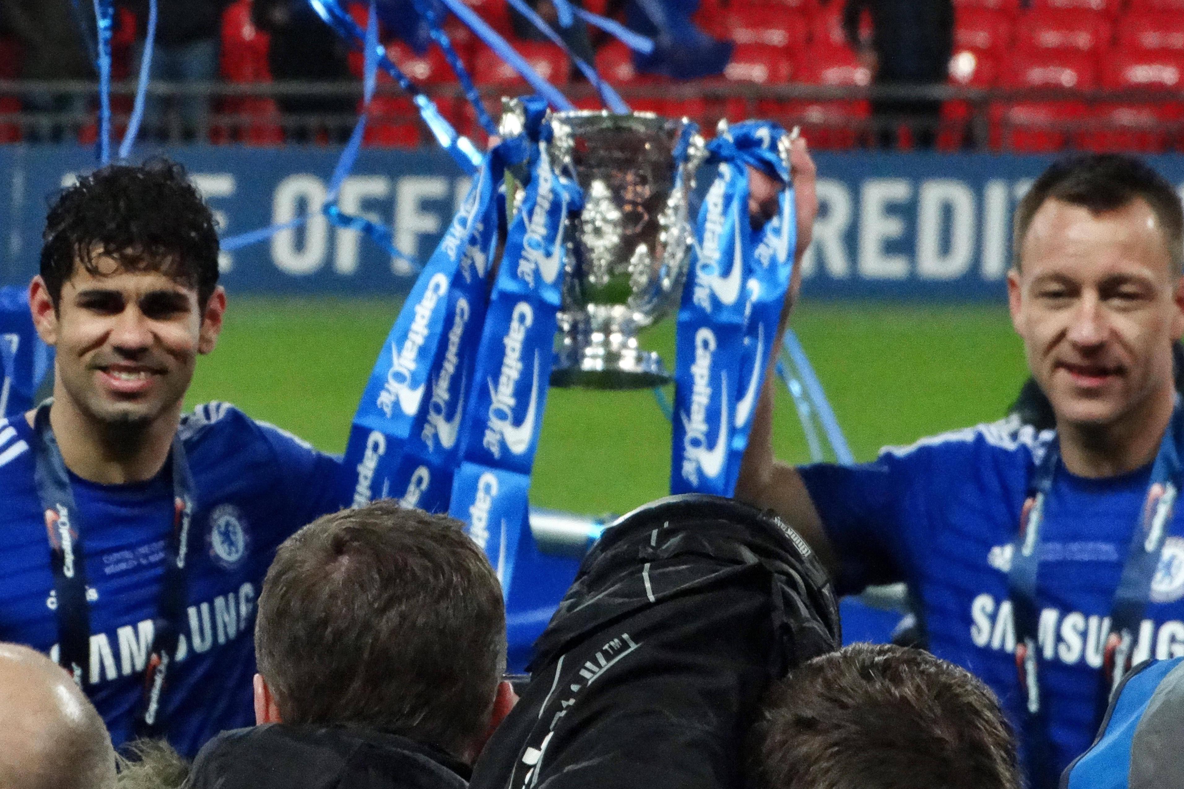 Chelsea 2 Spurs 0 Capital One Cup winners 2015